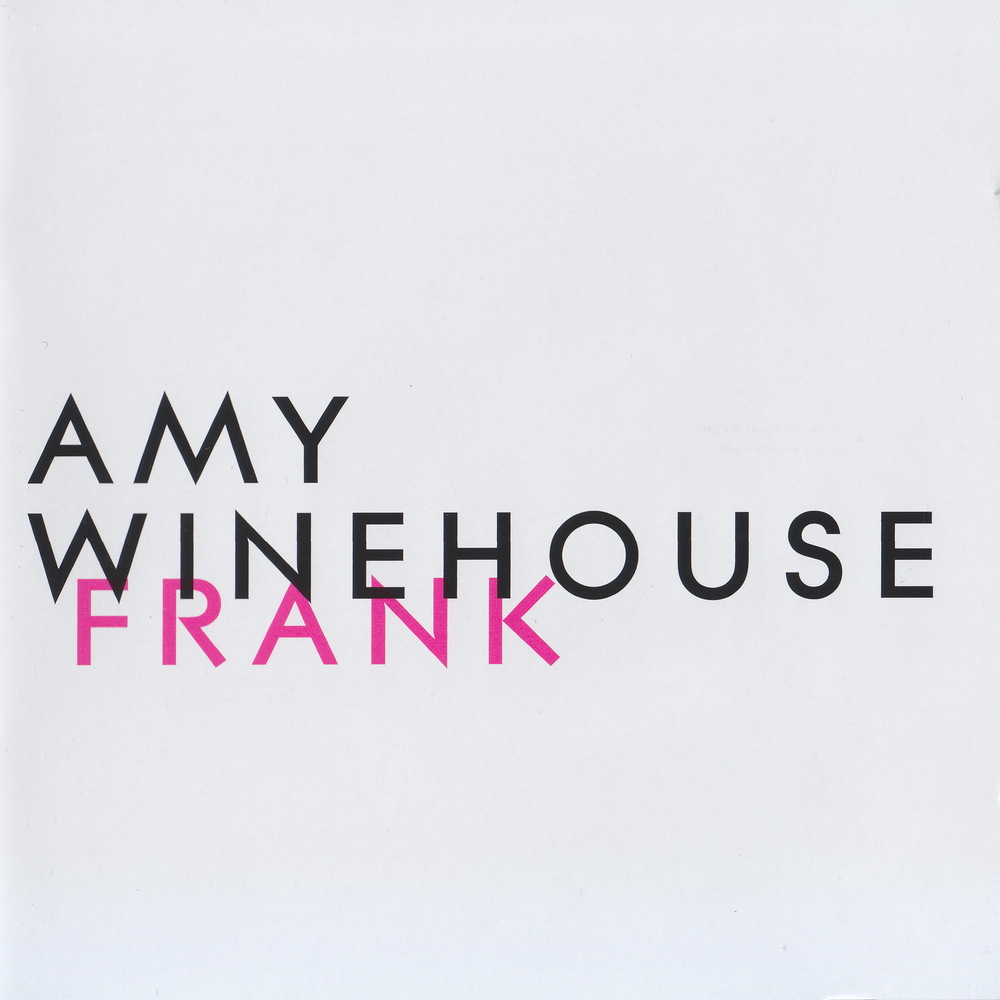 Album cover for Frank (deluxe edition) by Amy Winehouse